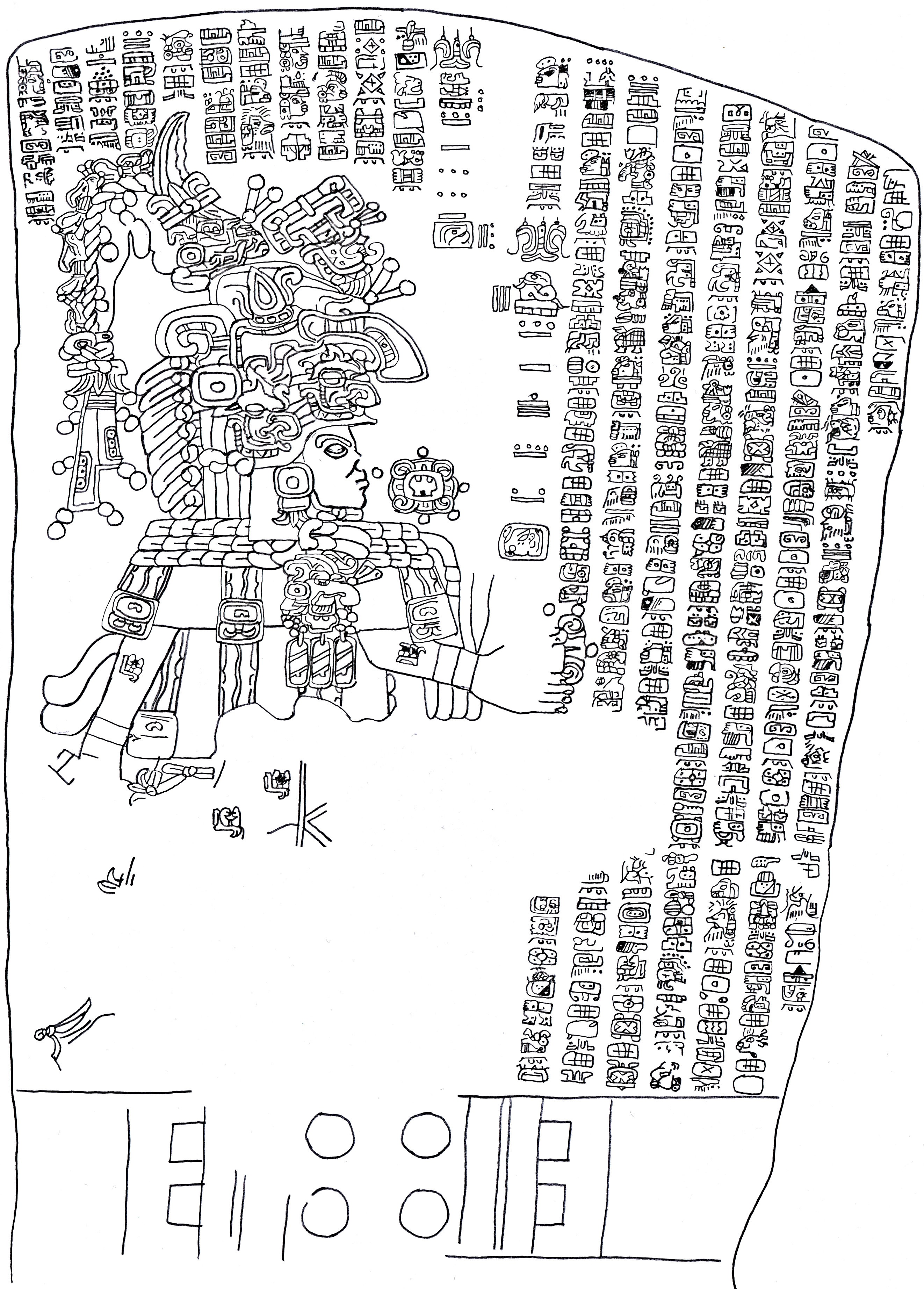 Drawing of the Epi-olmec sculpture La Mojarra Stela 1. Article number 16052 of Xalapa Museum, Mexico. Esquema de la estela epi-olmeca 1 La Mojarra. Artículo número 16052 del museo de Xalapa, México.